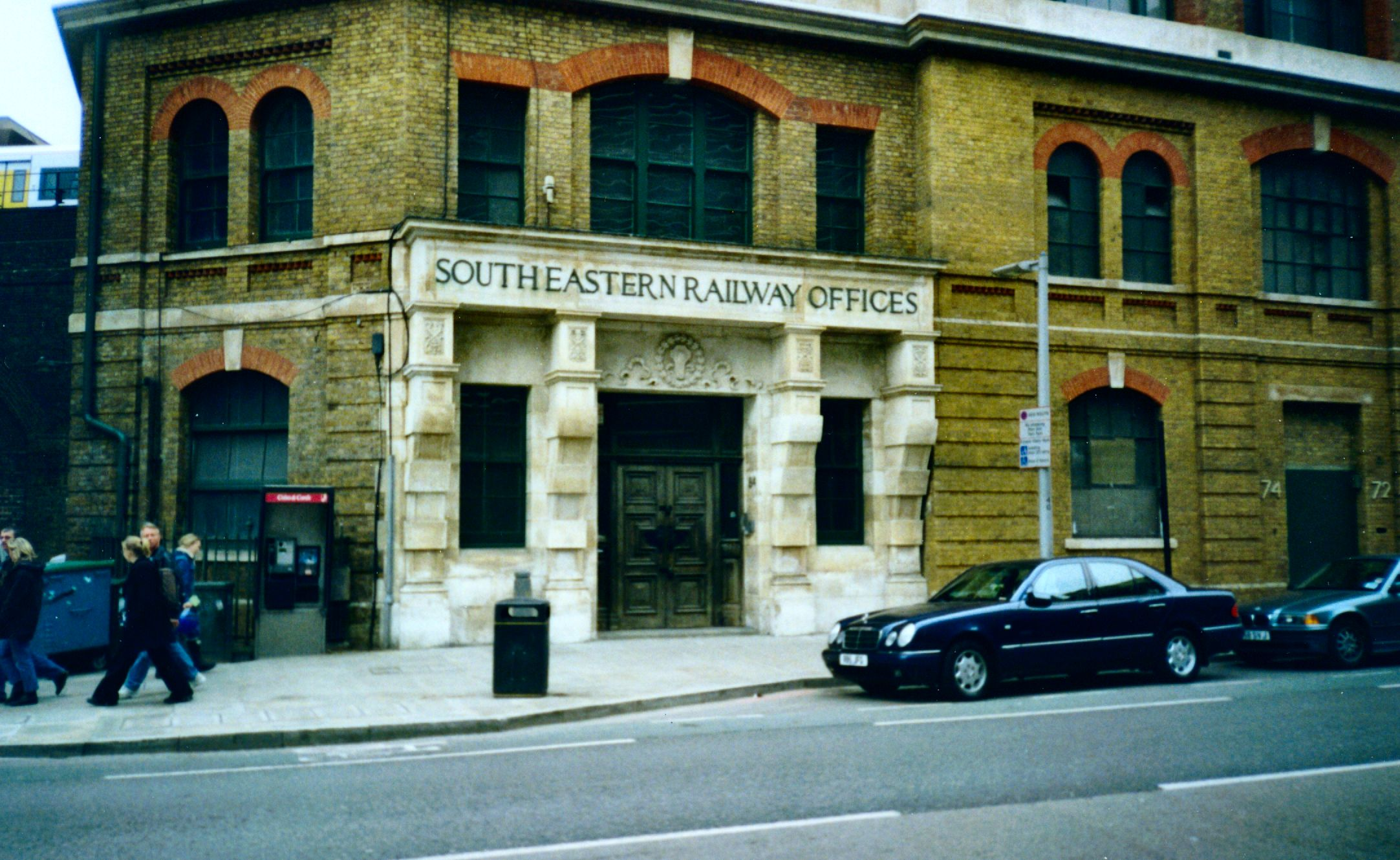 Former offices of the South Eastern Railway company at 84 Tooley Street, London, SE1 2TF. On the corner of Shipwright Yard, a few yards west of Bermondsey Street, at grid reference TQ331801. A train in London Bridge station can be seen at top left. The next building to the east (left) is The Shipwrights Arms. More images.